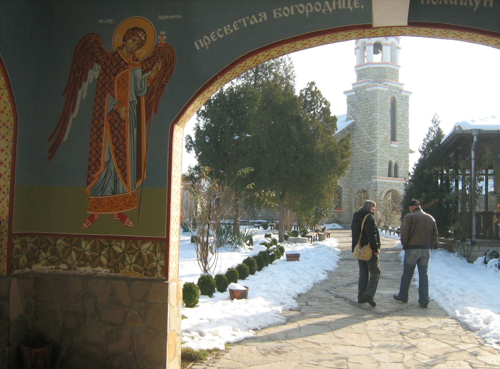 Church Uspenie Bogorodichno, Kardzhali, Bulgaria